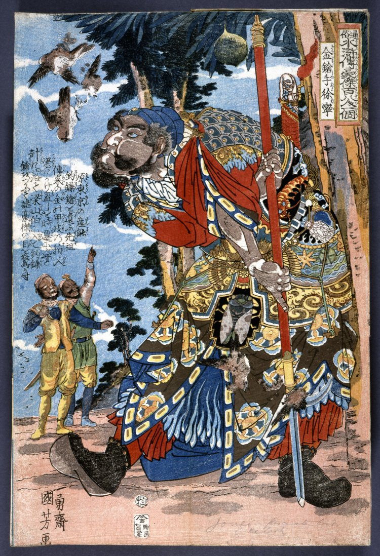 Xu Ning (徐寧) looking at sparrows, with halberd, two men in European dress.